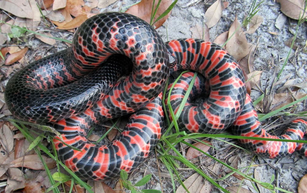 Detail Eastern Mud Snake, Pasco County Florida